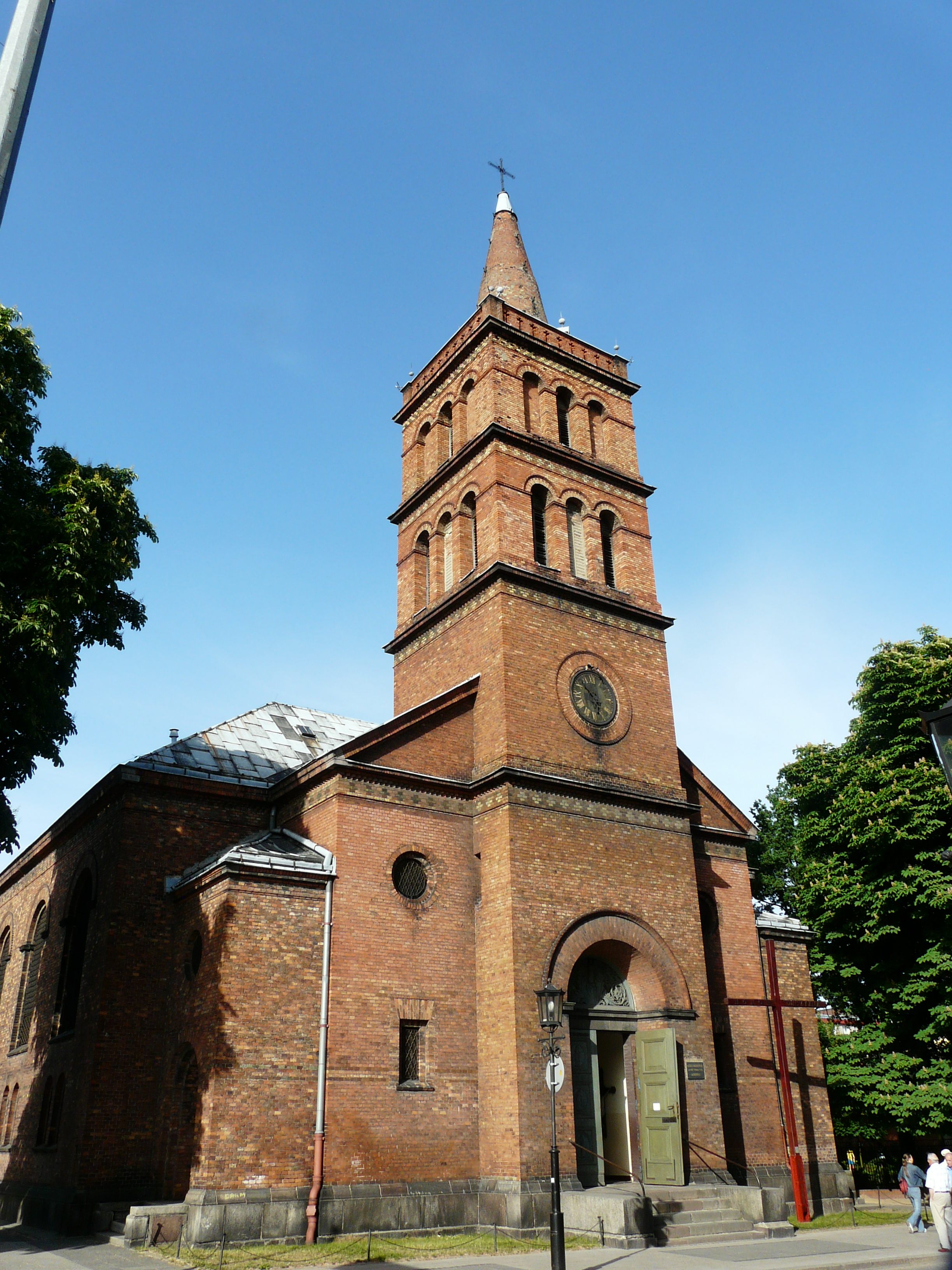 Holiest Mary the Virgin the Queen of Poland (garrison church; formerly evengelical) church in Gniezno, Poland, at B. Chrobrego street.